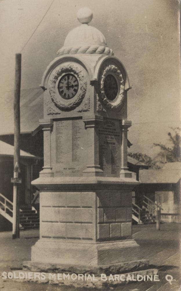 Soldier's Memorial on the corner of Ash and Beech Streets, Barcaldine, ca. 1928. The clock tower is a memorial to soldiers killed in World War I.